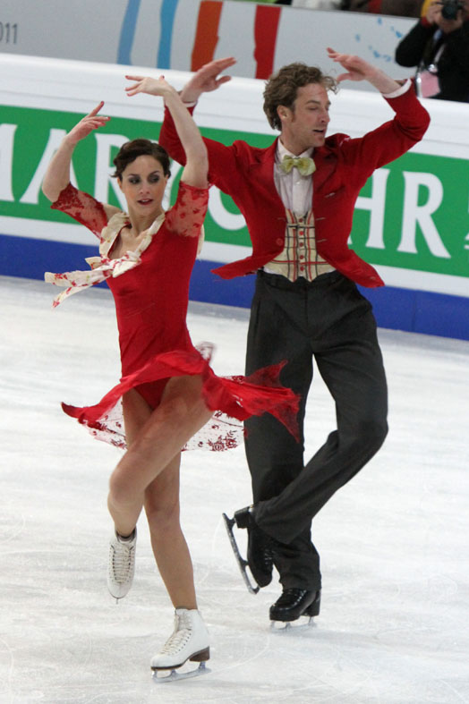 Nathalie Péchalat / Fabian Bourzat at the 2011 European Figure Skating Championships